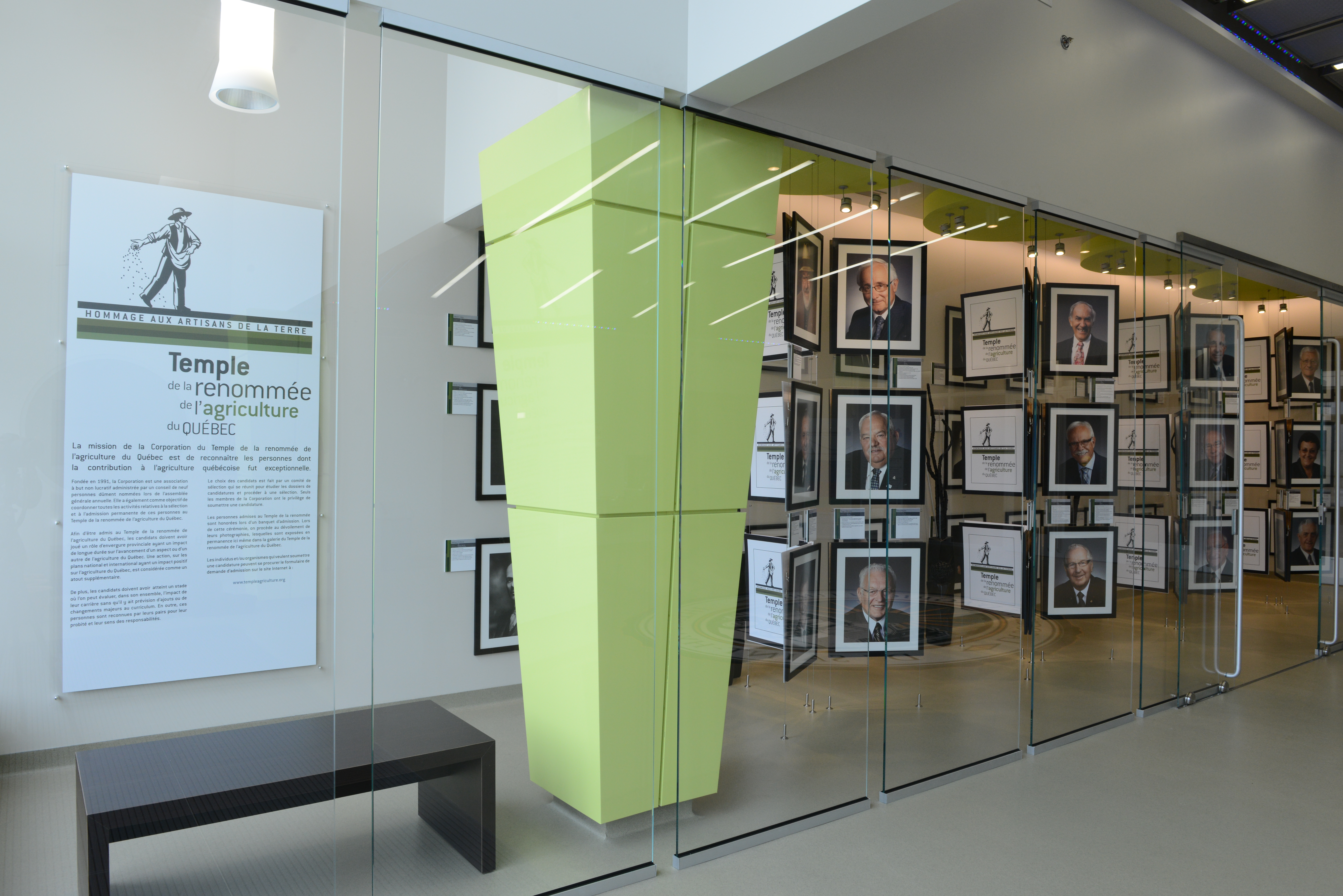 A picture of the exterior of the Agricultural Hall of Fame of Quebec.